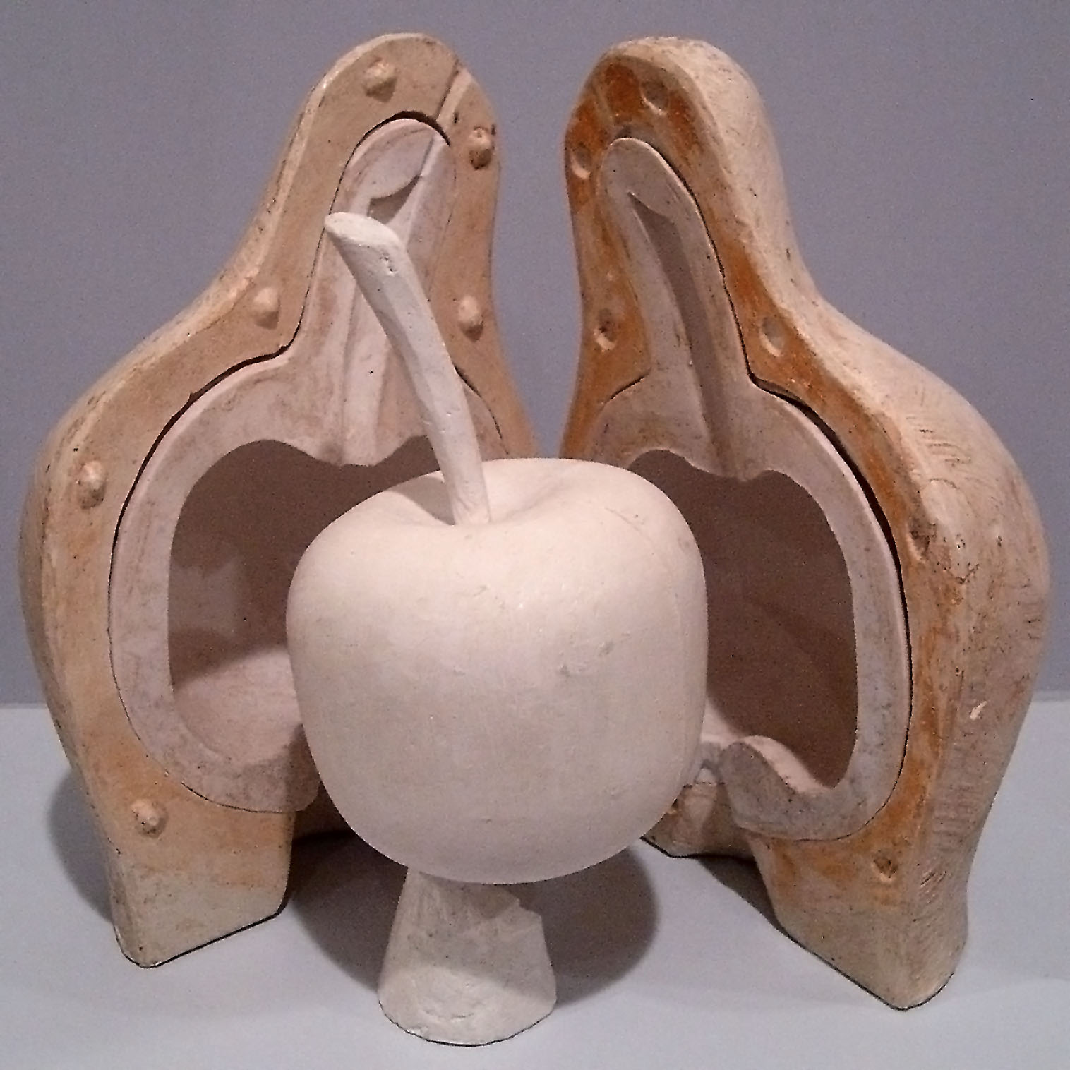 Lost Wax Casting: A rubber mold of the original wax model of an apple and its cast, in this case from plaster. Step 2 of the lost-wax bronze casting process